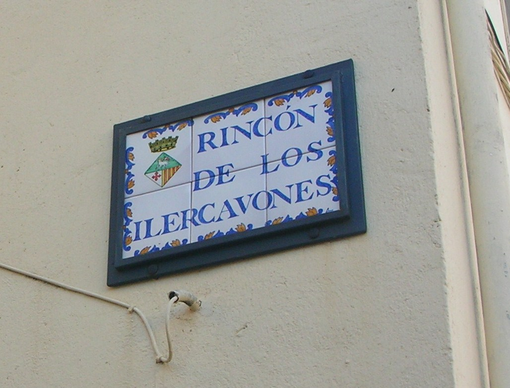 Streetboard in Cretes/Cretas, Aragon